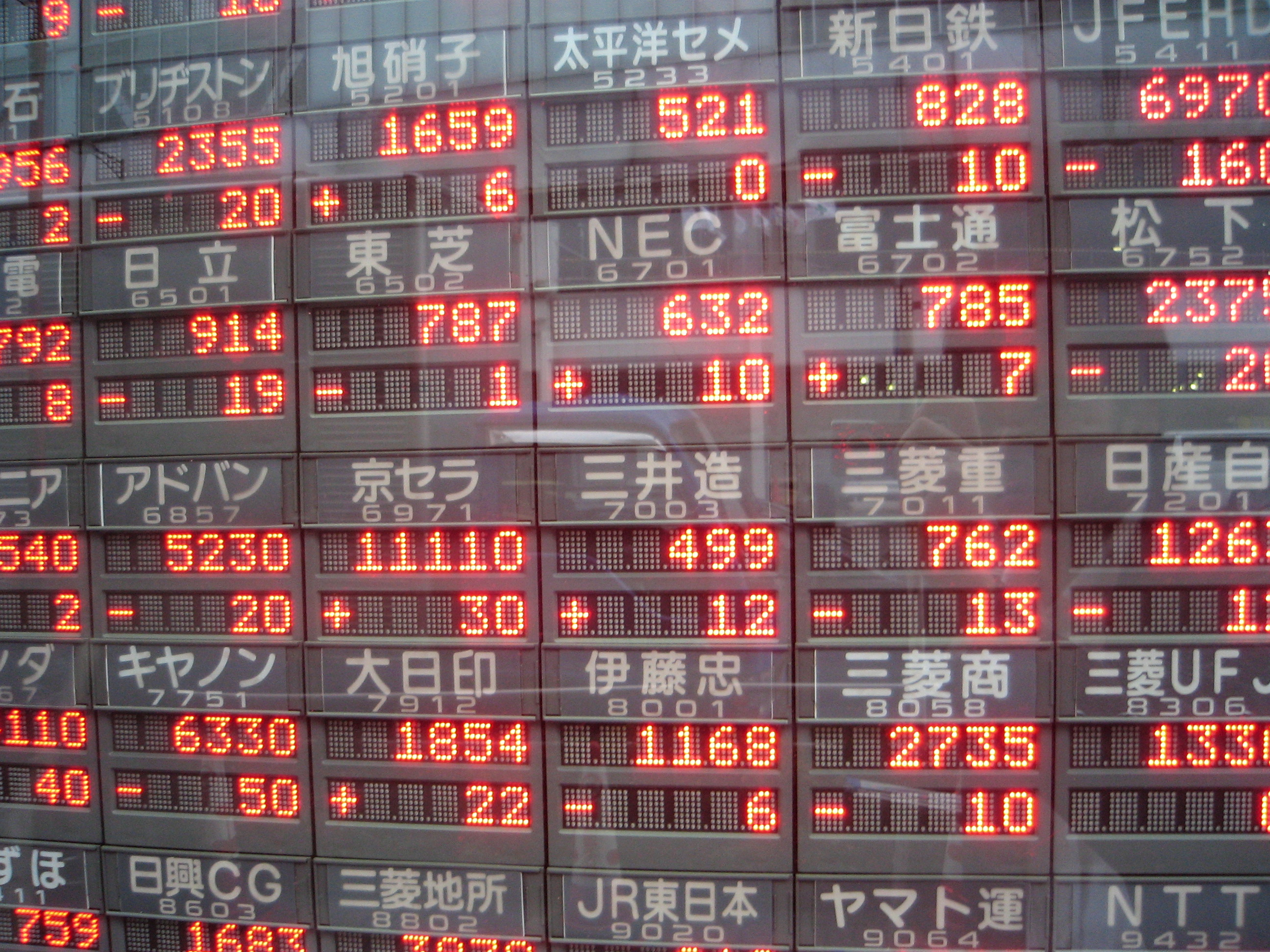 Electronic board in Yaesu, Tokyo displaying stock exchange market data. Photo taken in March 2007.